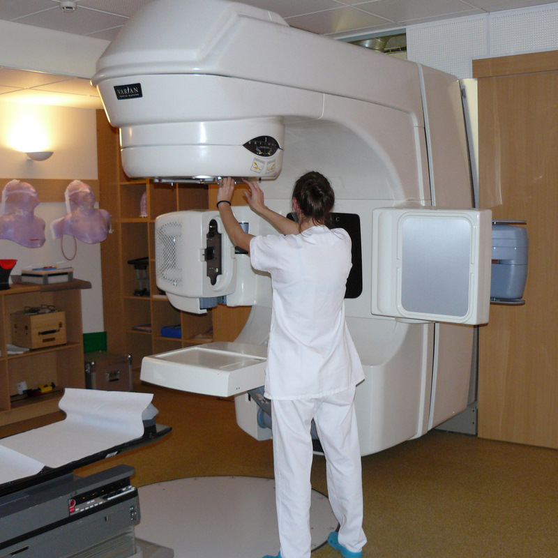 Varian Clinac-2100 C / D linear accelerator used for radiation therapy